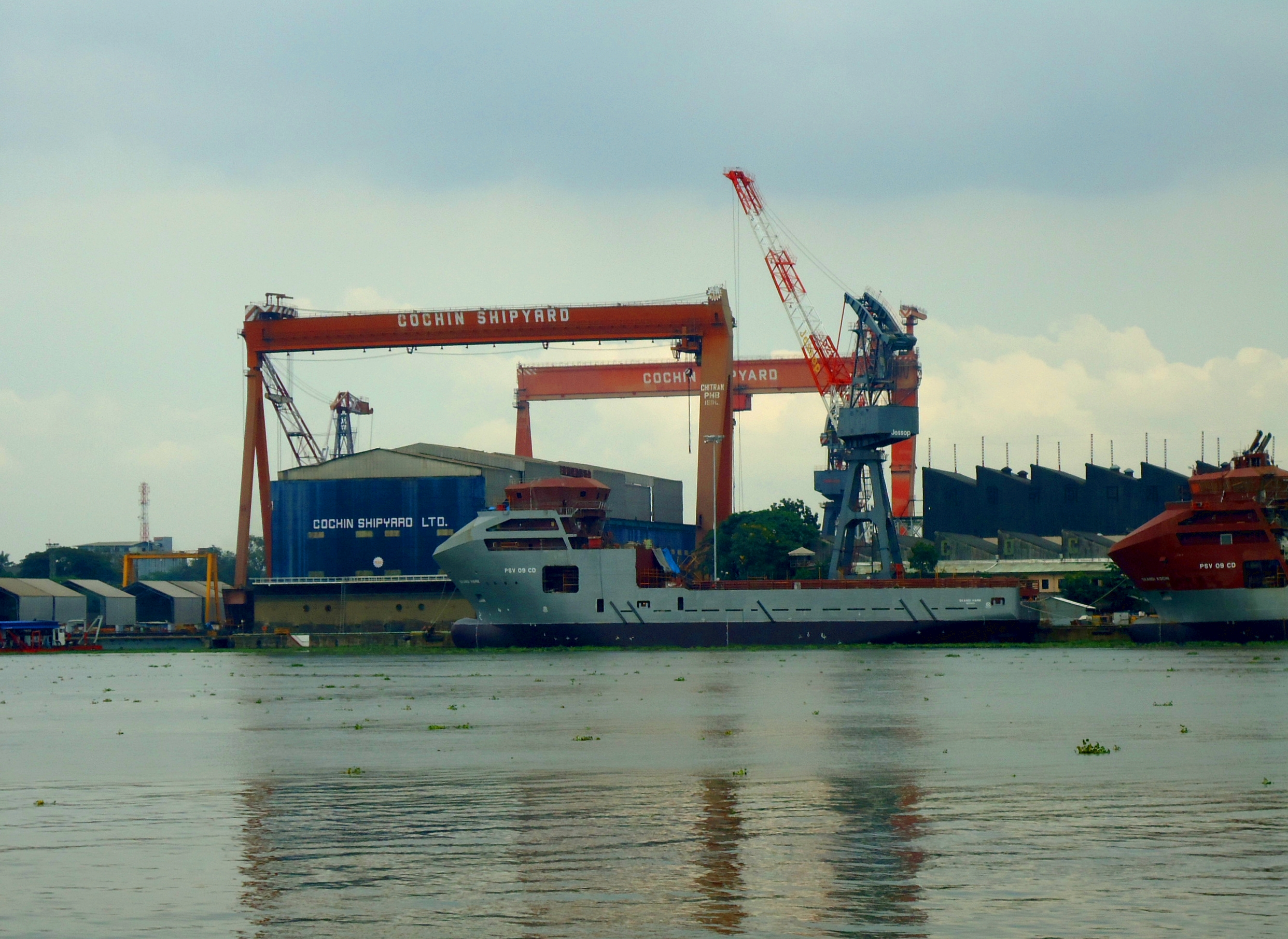 Cochin Shipyard Ltd. Cranes and PSV 09 CD